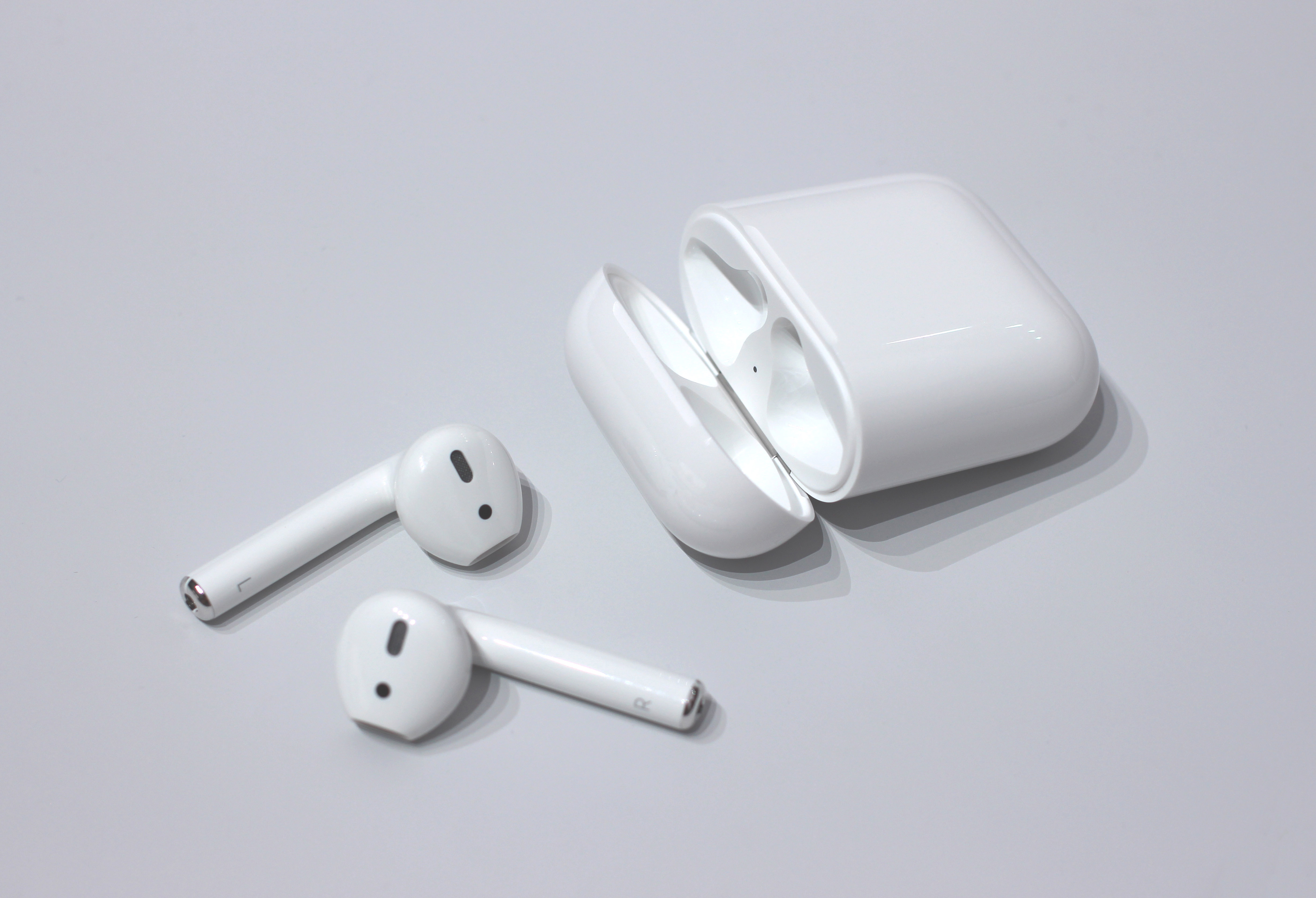 Photo of Apple AirPods wireless headphones and their case.